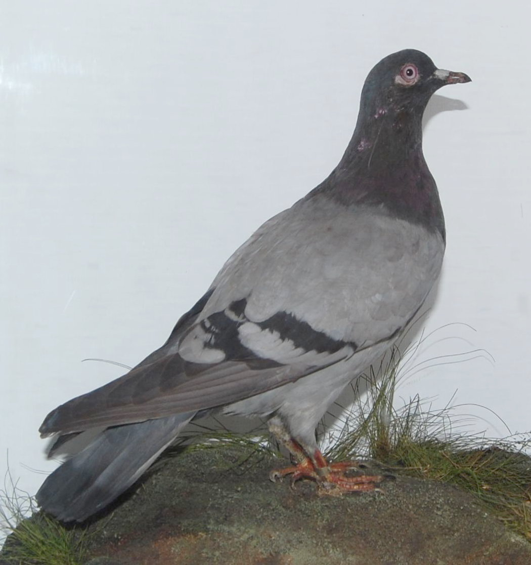 Taxidermied skin of racing pigeon The King of Rome at Derby Museum and Art Gallery. Taken during GLAMDerby Backstage Pass.